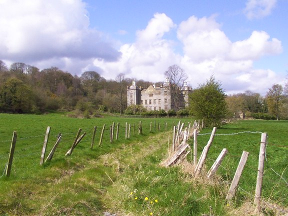 Plas Teg country house. Adjacent to the main Mold - Wrexham road.